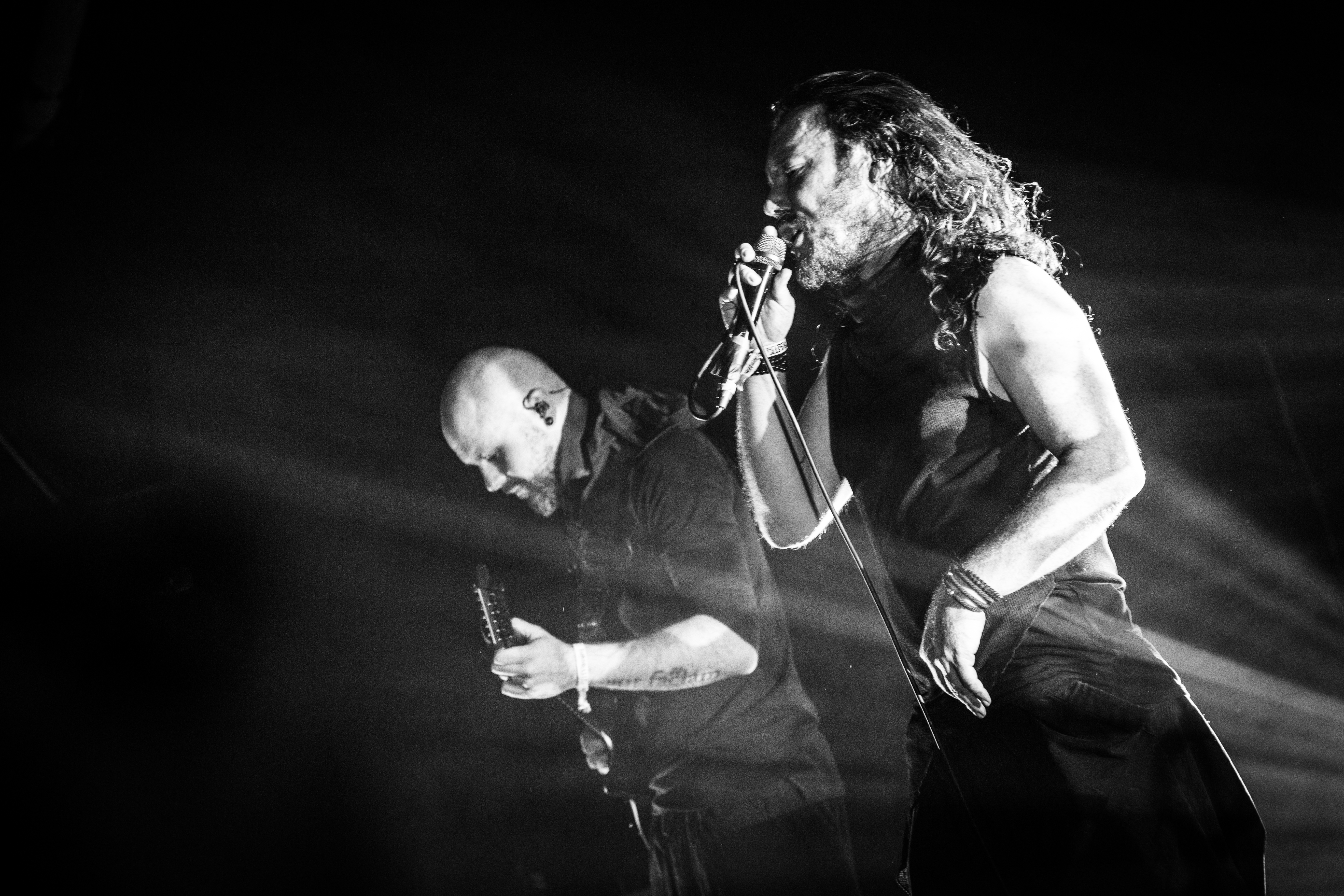 Twelve Foot Ninja performing live at Euroblast Festival, Cologne 2017